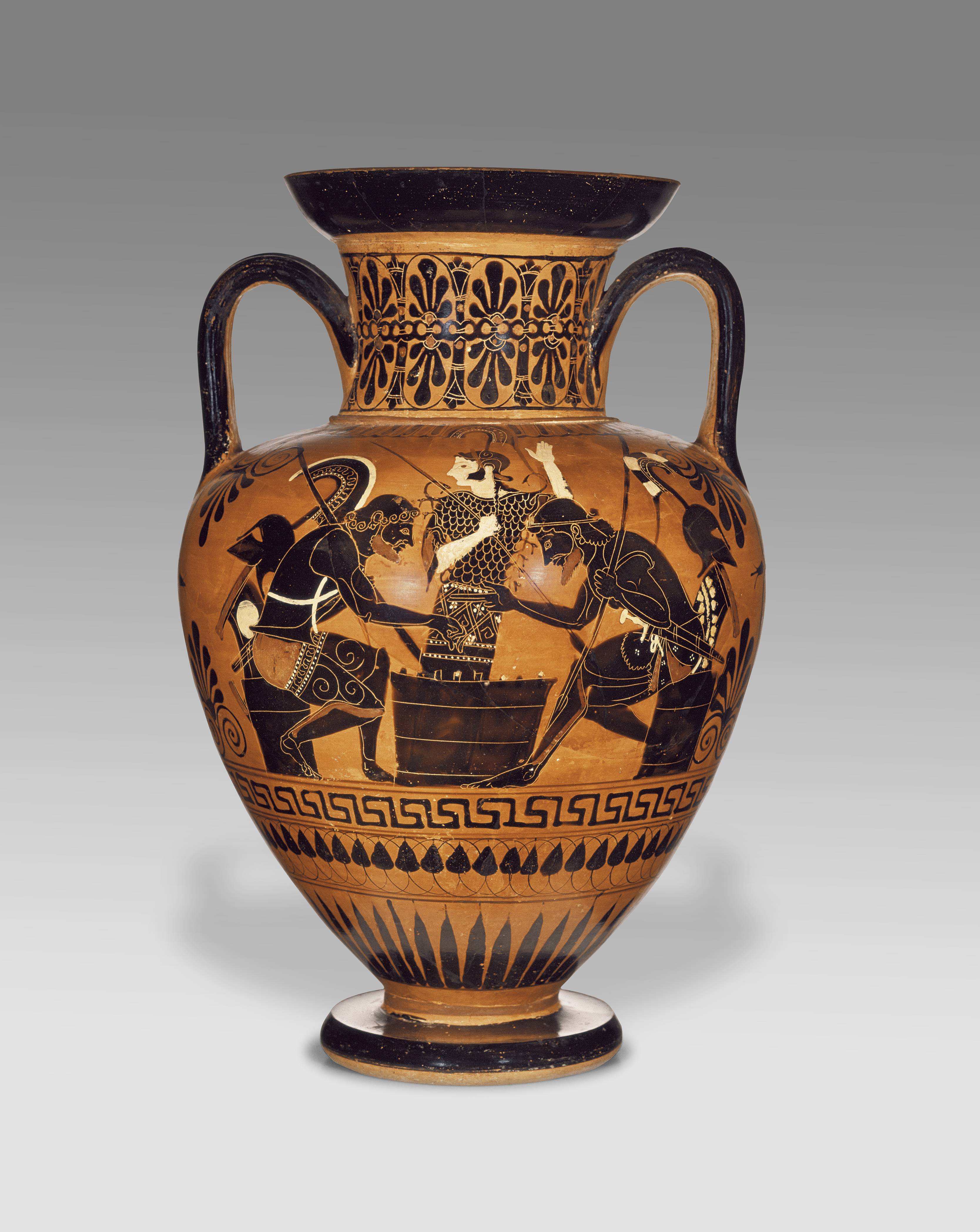 Achilles and Ajax playing a board game overseen by Athena Attic Black-figure Neck Amphora; Near Medea Group, ca. 510 BCE Uploaded from the Getty Open Content Program, with the following description: Achilles and Ajax, two great heroes of the Trojan War, play a board game on this Athenian black-figure amphora. Behind the table stands the goddess Athena. The scene of the warriors at leisure but with their armor at the ready might have taken place during a break in fighting the Trojan War. This depiction of Ajax and Achilles gaming was especially popular in Athenian art in the late 500s B.C.; over 150 surviving vases show the scene. Why was this image so popular? Some scholars have argued that it was politically motivated. They interpret this scene as a mythical parallel for the tyrant Peisistratos's return from exile, when he was able to regain power because the Athenian army was unprepared for battle. If so, then these vases would be anti-Peisistratid propaganda, alerting Athenians to the importance of vigilance by reminding them of the consequences of their recent failure.